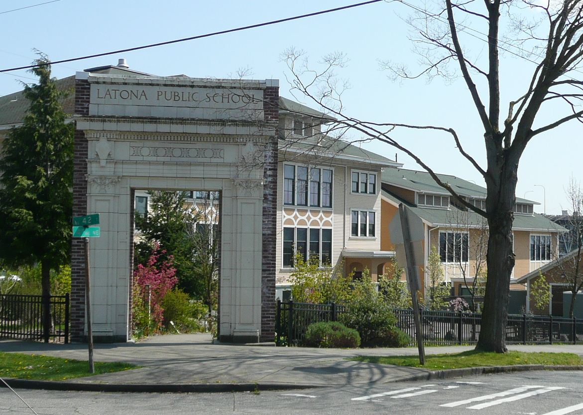 View from the northwest, the Latona School archway from the 1917 addition (since demolished) in foreground, new addition to right/rear. Latona School, now John Stanford International School, a public school in Seattle, Washington.